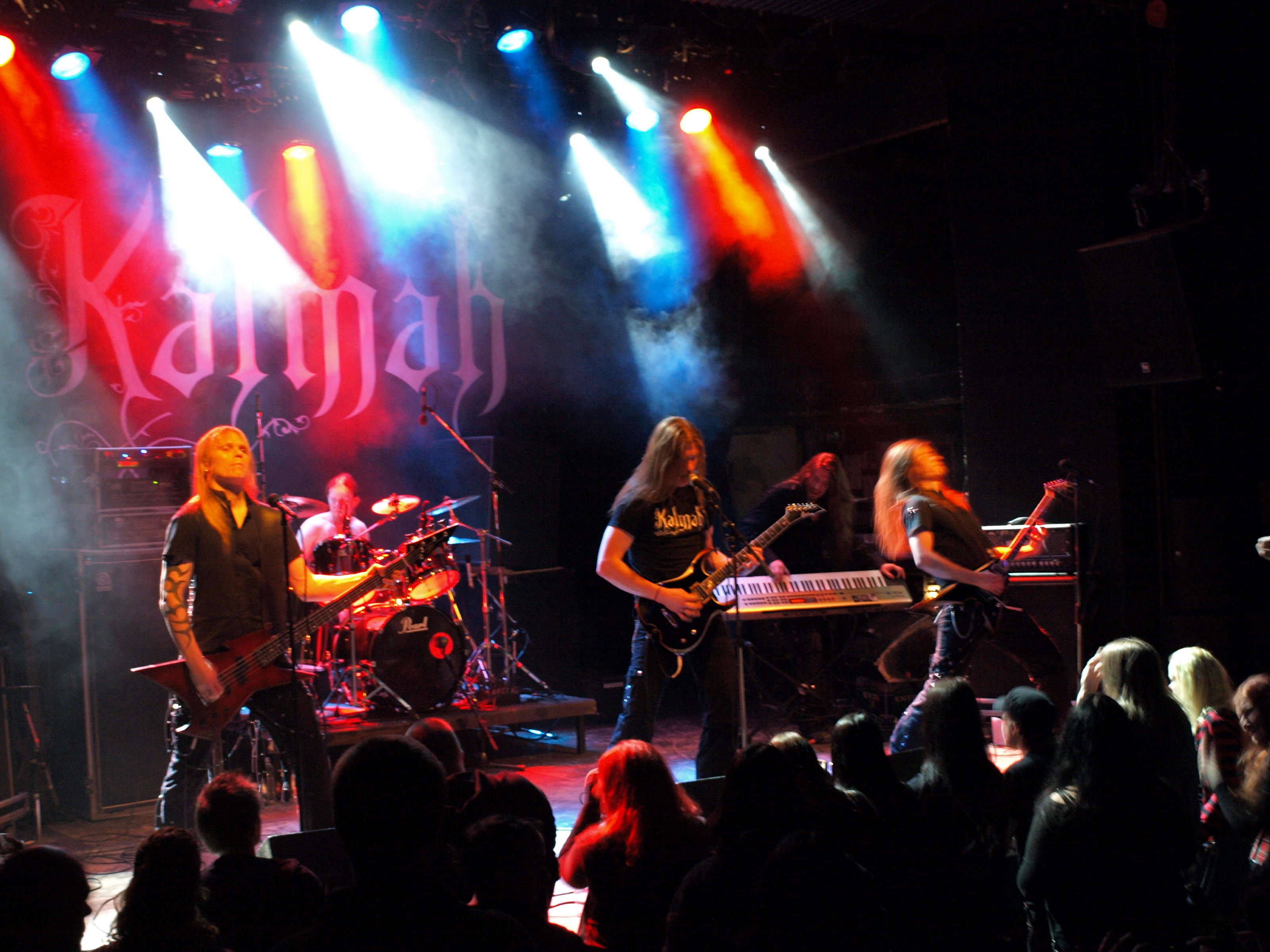 Finnish melodic death metal band Kalmah